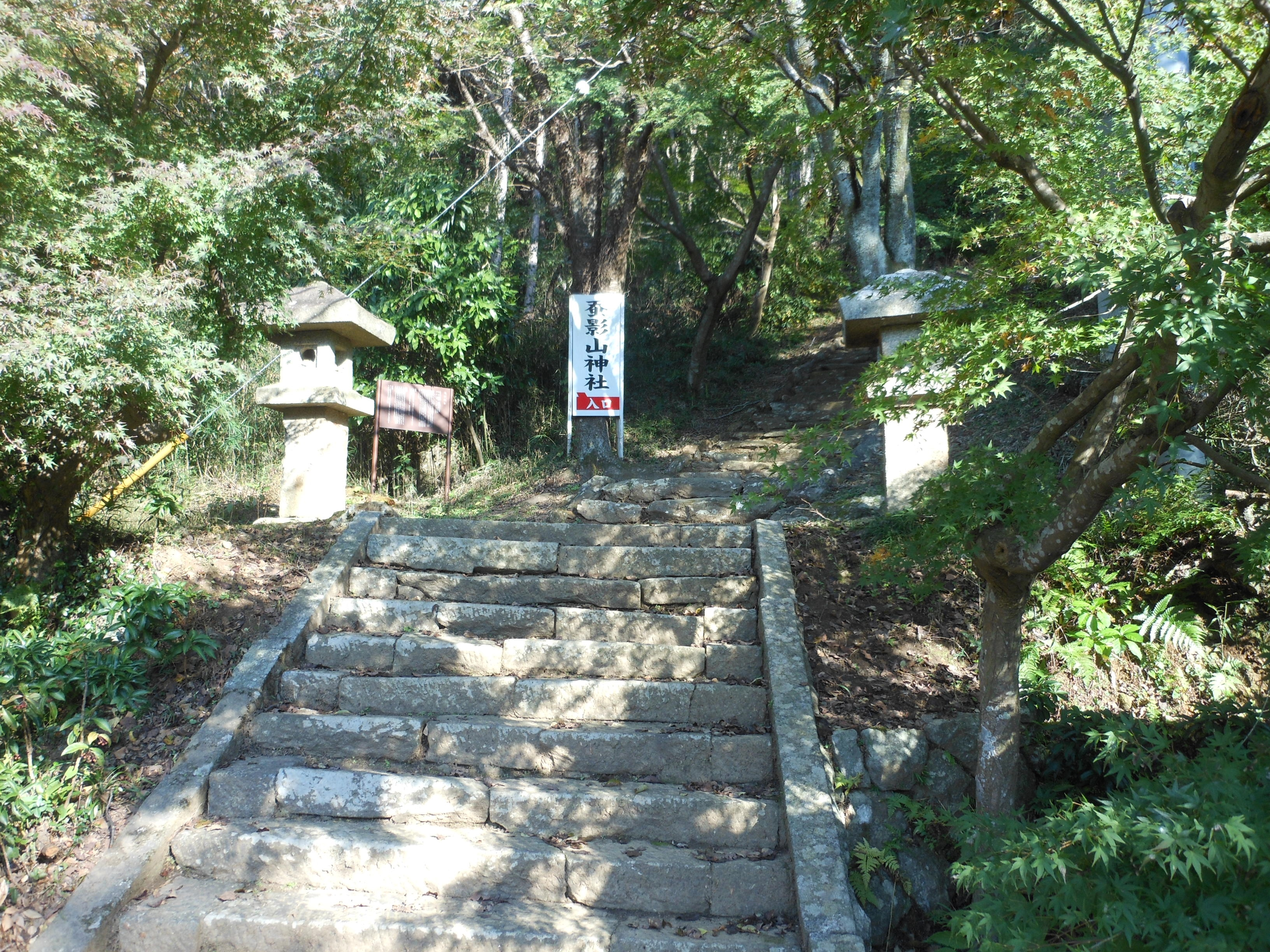 This is the stone steps for the main building of Kokage shrine in Tsukuba, Ibaraki, Japan.